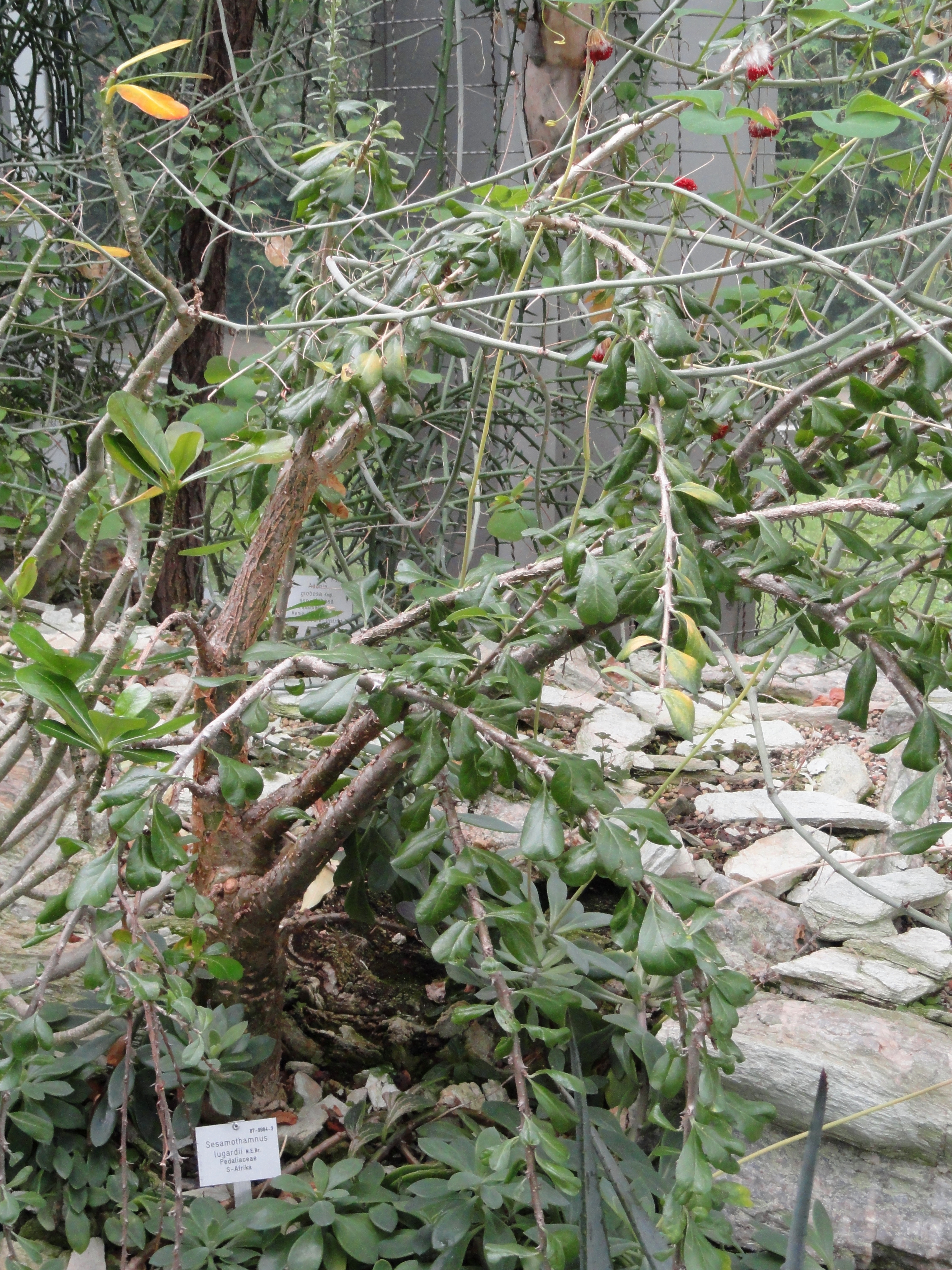 Botanical specimen in the Palmengarten, Frankfurt am Main, Germany.